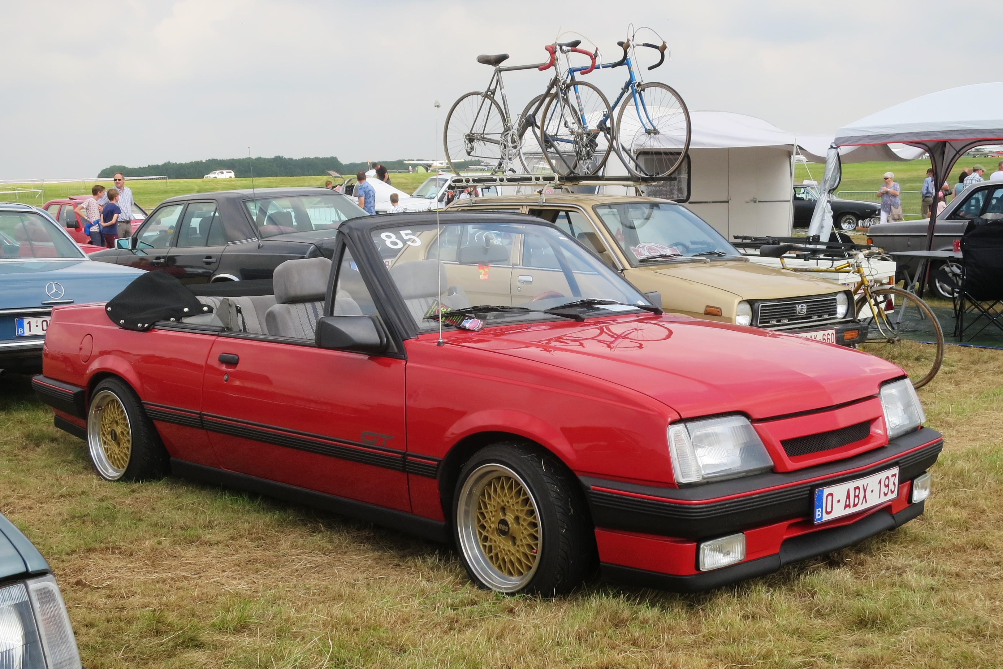 Opel Ascona cabriolet at Schaffen-Diest 2016